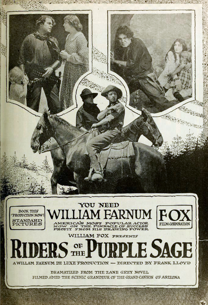 Advertisement in Moving Picture World for the American western film Riders of the Purple Sage (1918) with William Farnum.